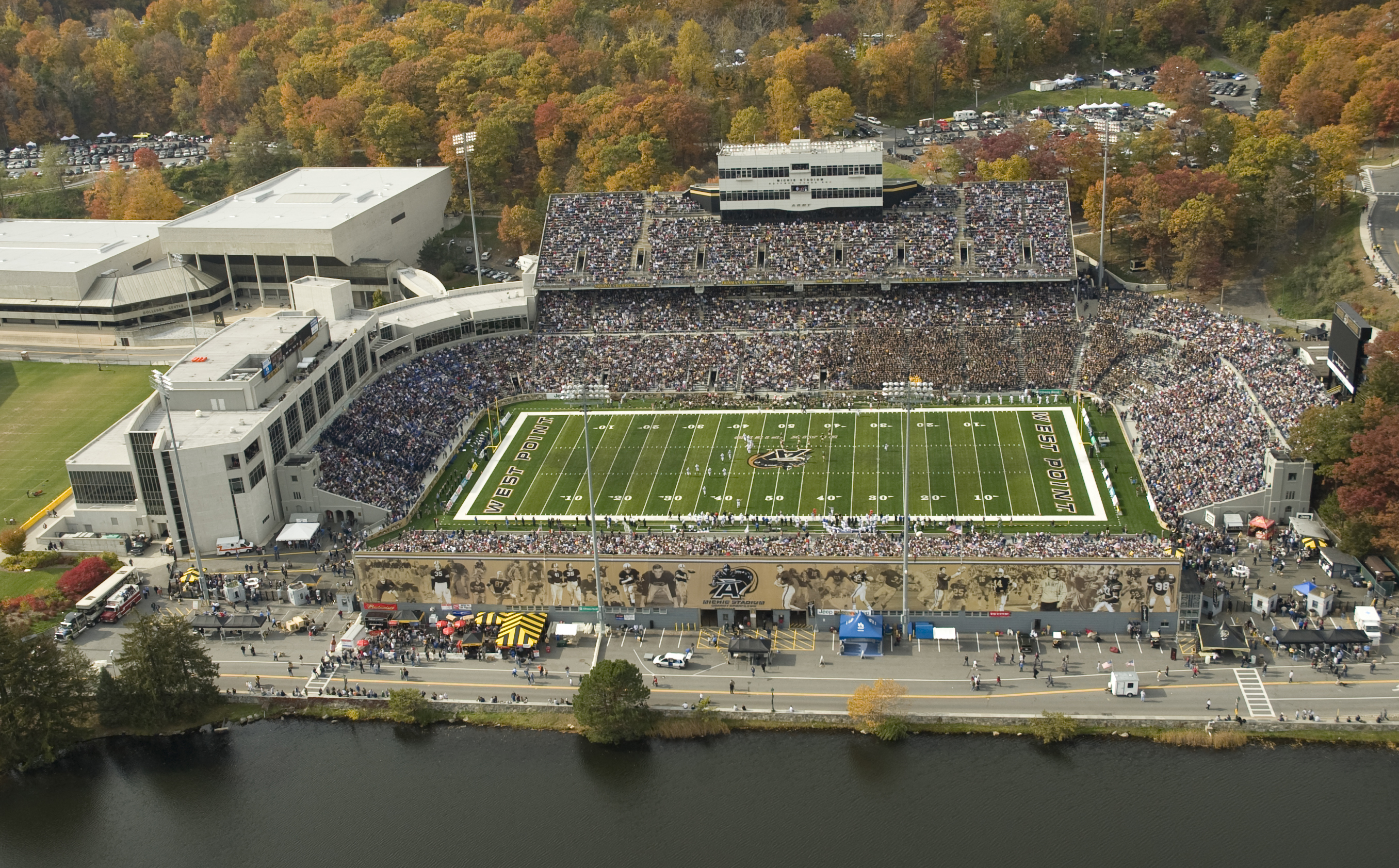 Looking west